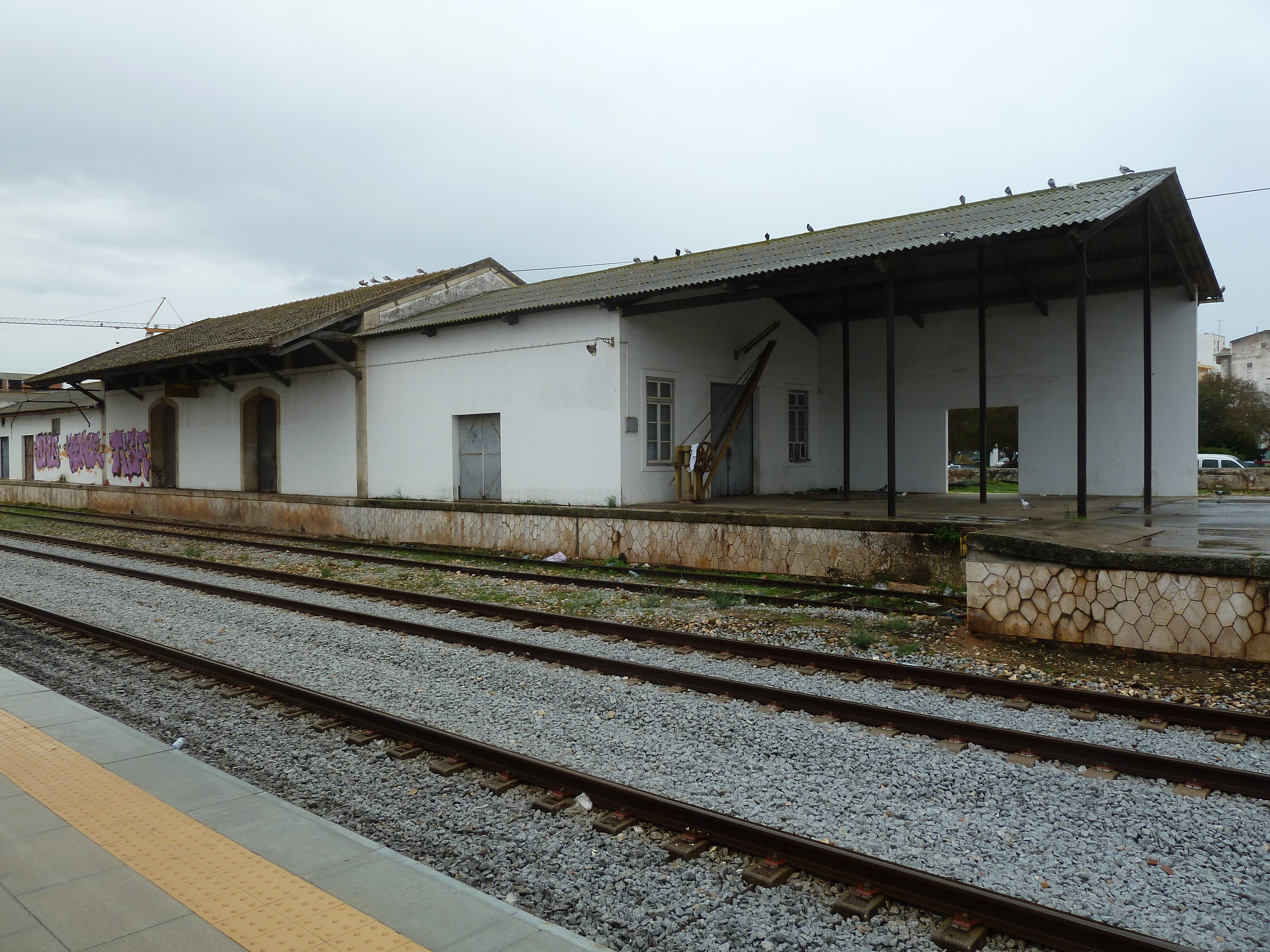 Portimao railway station, Portimao, Algarve, Portugal October 2015